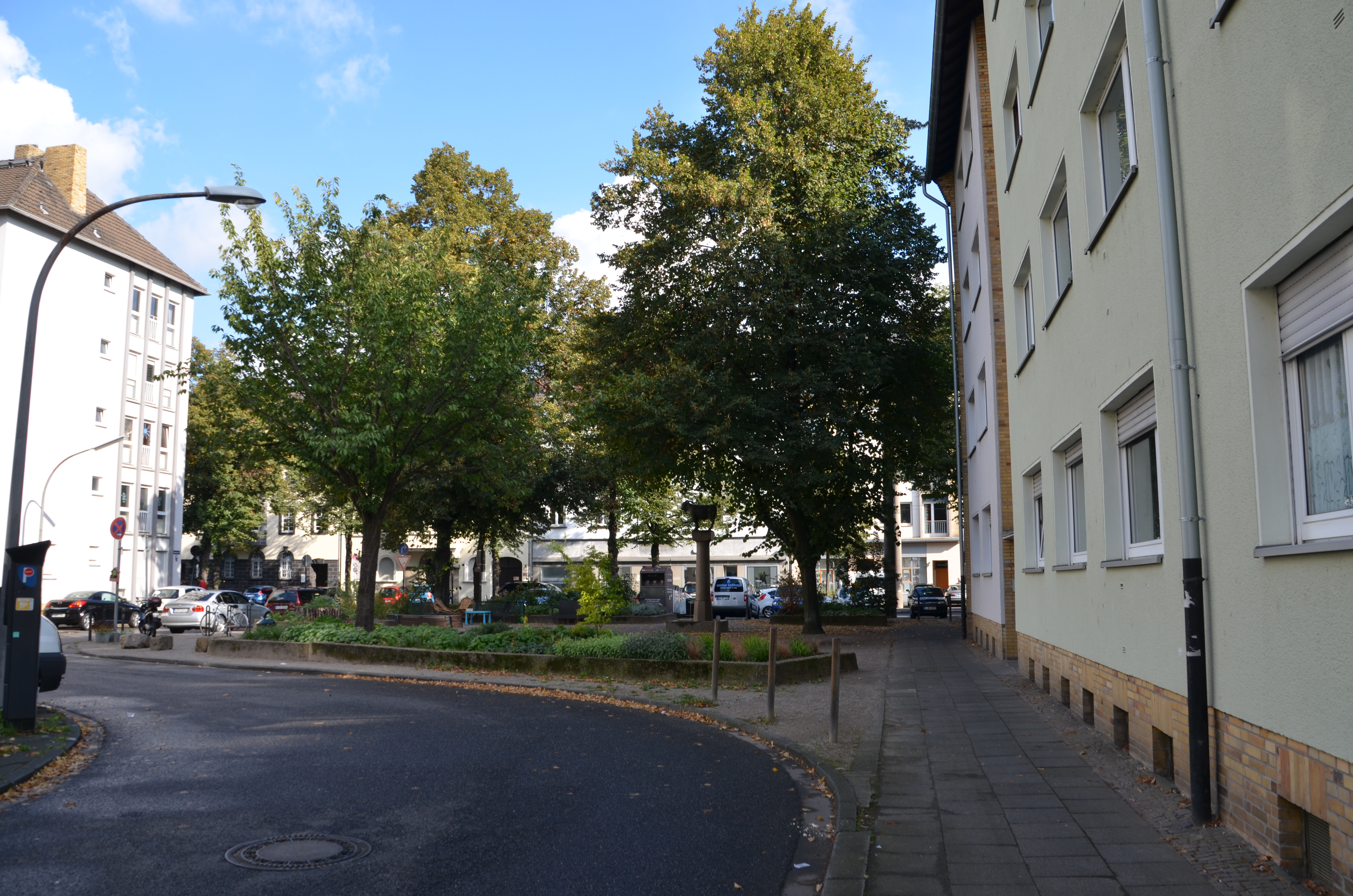 Cologne, fountain "Düxer-Bock"